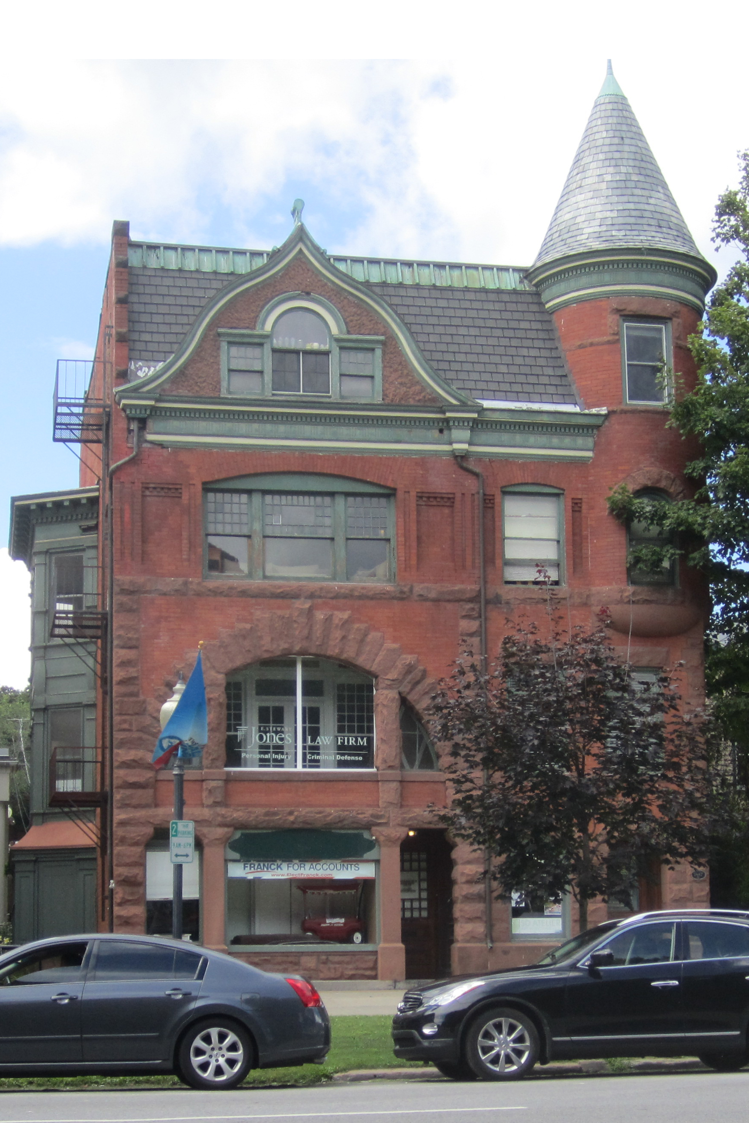 511 Broadway, Saratoga Springs NY. 1887 office/residence of Dr. Douglas C. Moriarta, designed by R. Newton Brezee